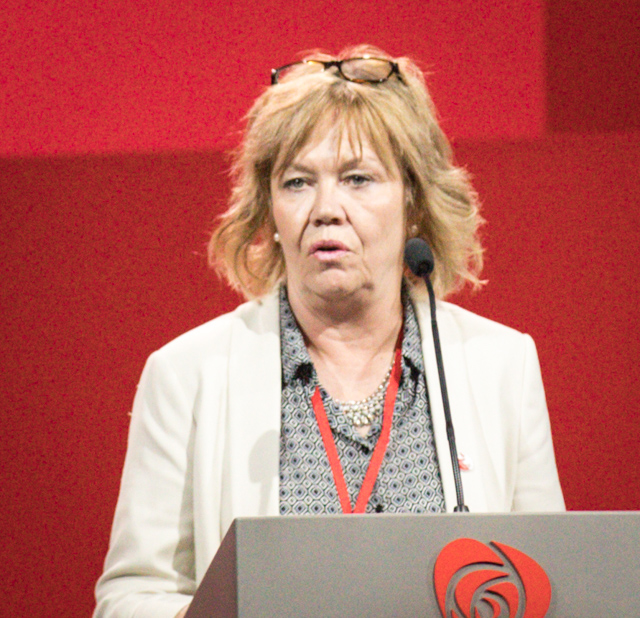 Kjersti Nythe Nilsen during the debate at Norway Labour party's bi-yearly congress in 2017(Arbeiderpartiets landsmøte).